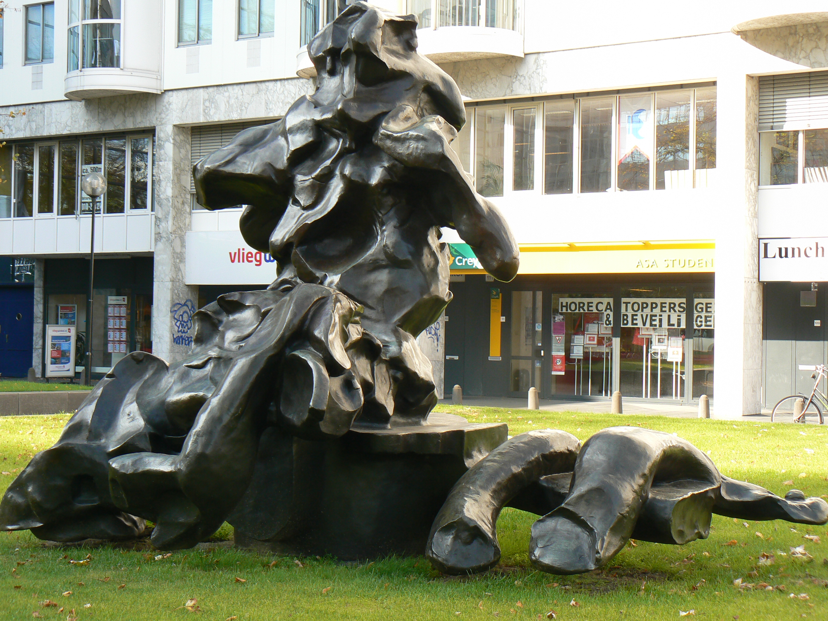 sculpture Seated Woman in Rotterdam/The Netherlands